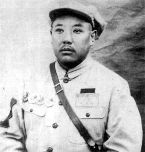 Republic of China Chinese muslim General Ma Hongkui. Was a member of the Kuomintang.